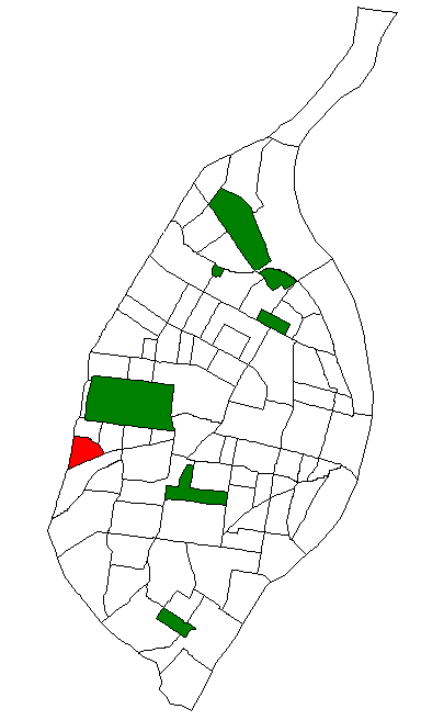 Map of St. Louis Neighborhood #43